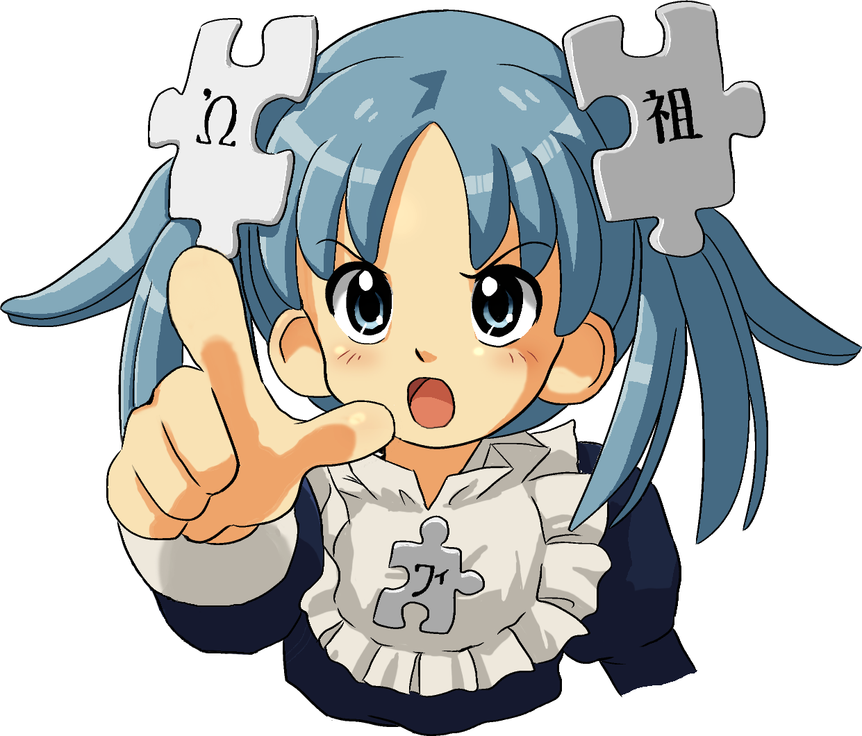 Angry Wikipe-tan image without the caption, thus allowing a wider range of uses.